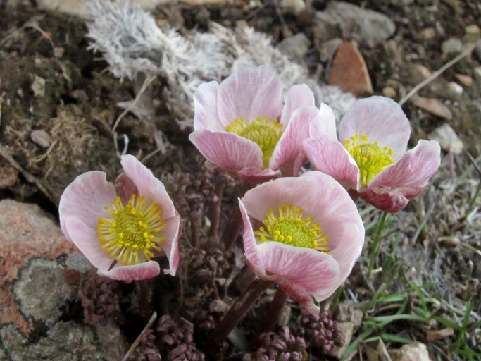 Ranunculus andersonii, Eureka County, Nevada, USA. This photo is in the public domain and may be freely used for any purpose.